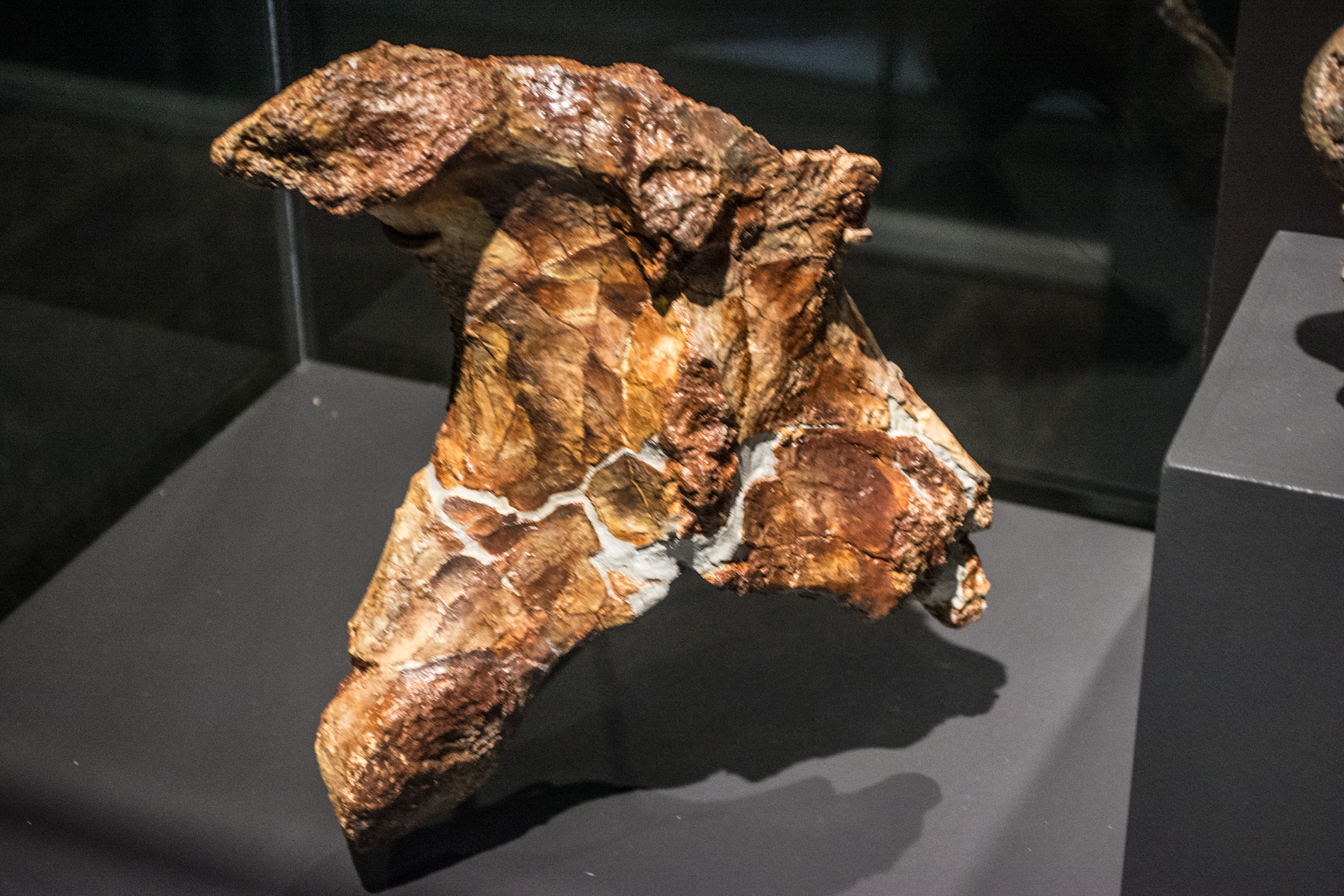 Cast of a Hatzegopteryx thambema neck bone. On display as part of the exhibit "Pterosaurs: Flight in the Age of Dinosaurs" at the Cleveland Natural History Museum in Cleveland, Ohio, in the United States. This pterosaur, of which only a handful of bones have been found, was the largest in world history. It had an estimated wingspan of 33 to 40 feet. This animal lived about 67 million years ago. This fossil was found in the Sebes formation in the Hațeg Basin in Romania. This is a cast; the fossil itself is held by the Transylvanian Museum Society.